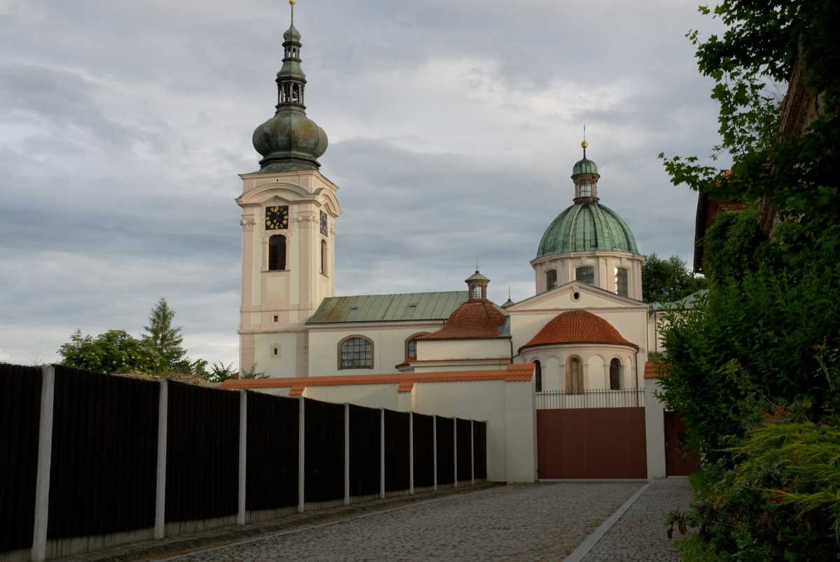 Doksany Convent, Doksany 1, Doksany with the Church of the Virgin Mary, view from the north